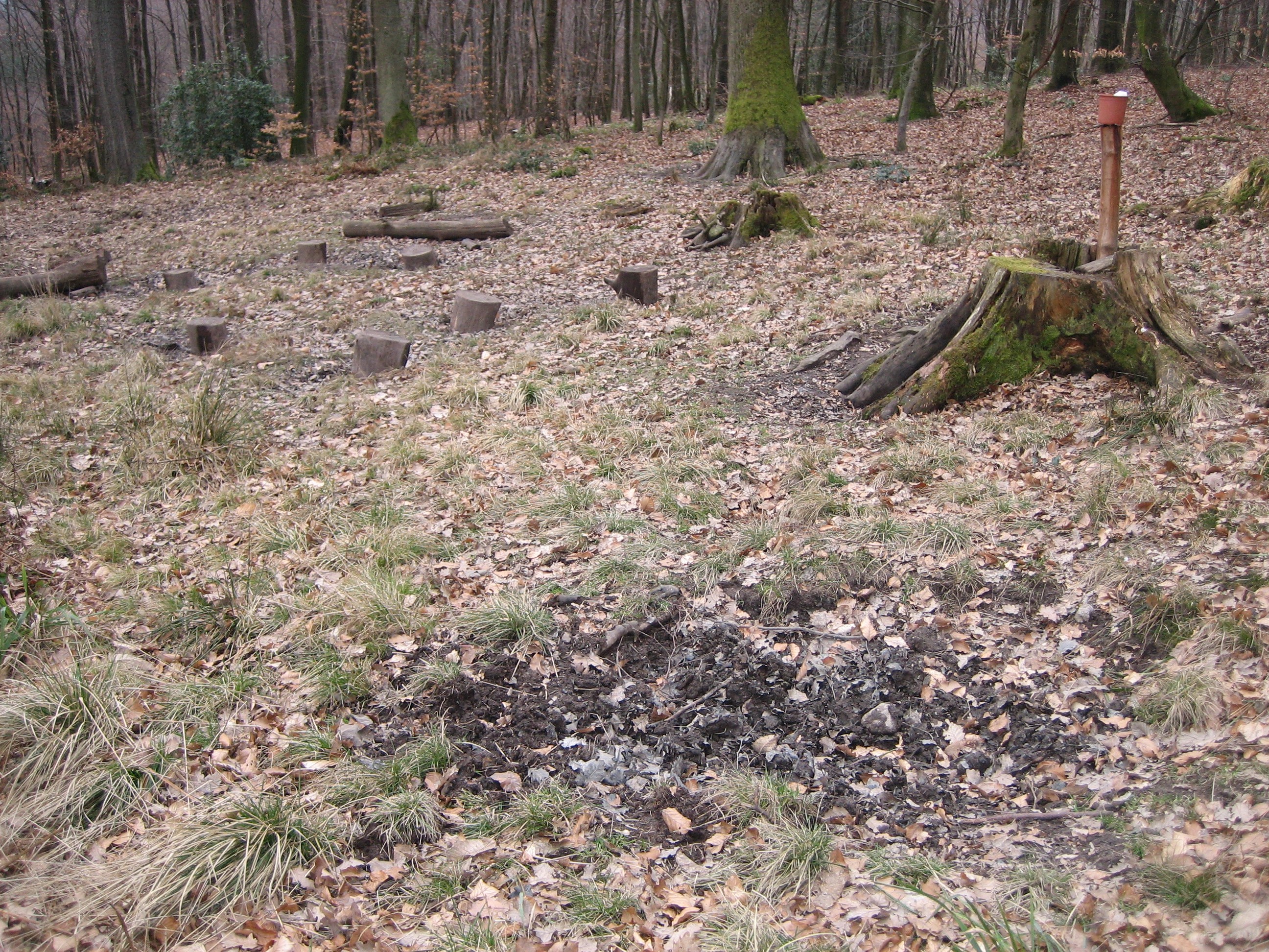 Wild boar bait, salt lick and hog wallow near Kuppenheim, Germany